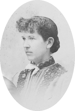 Portrait photograph of American ichthyologist Rosa Smith Eigenmann (1858-1947)